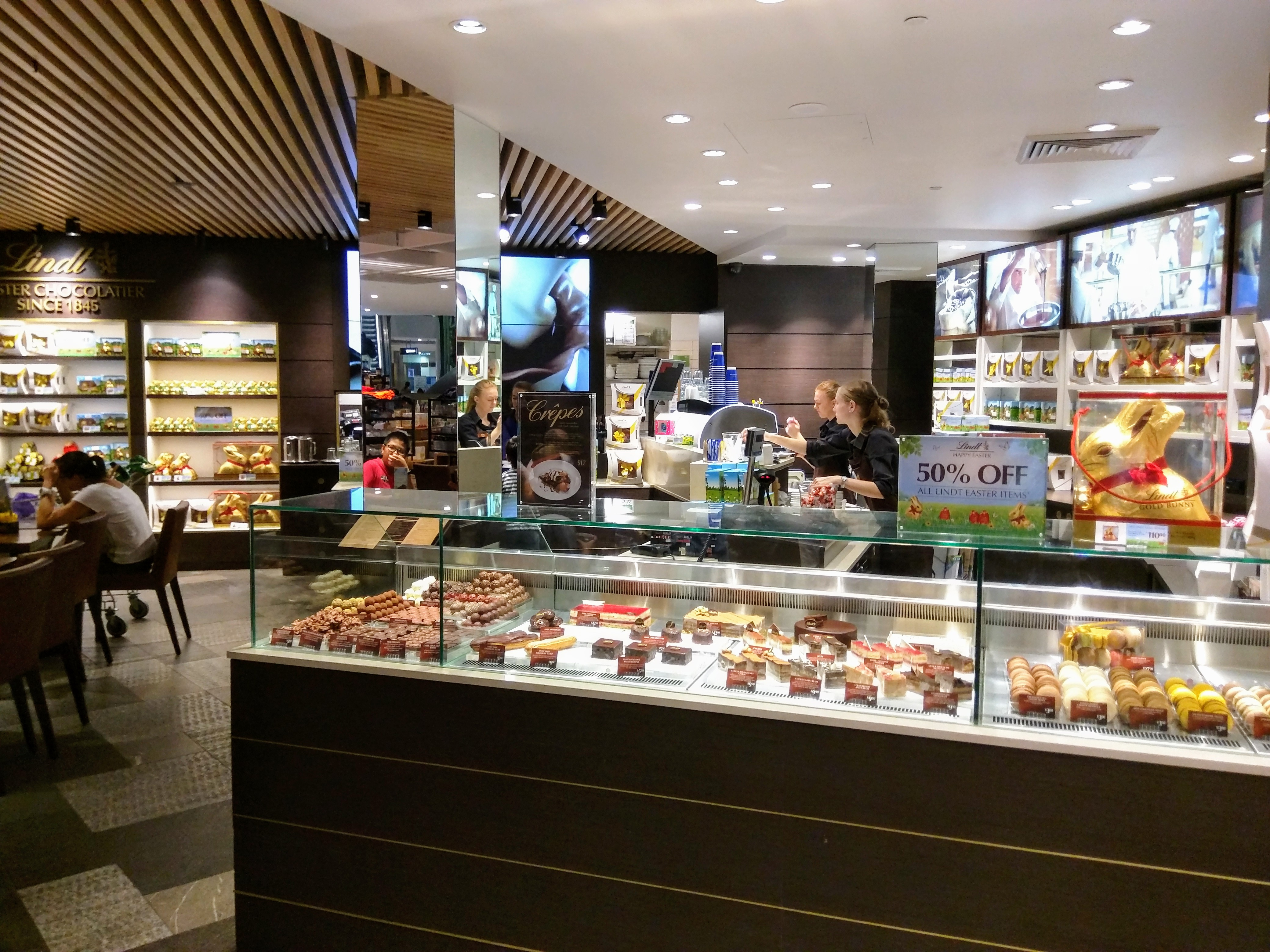 Lindt Cafe, Miranda